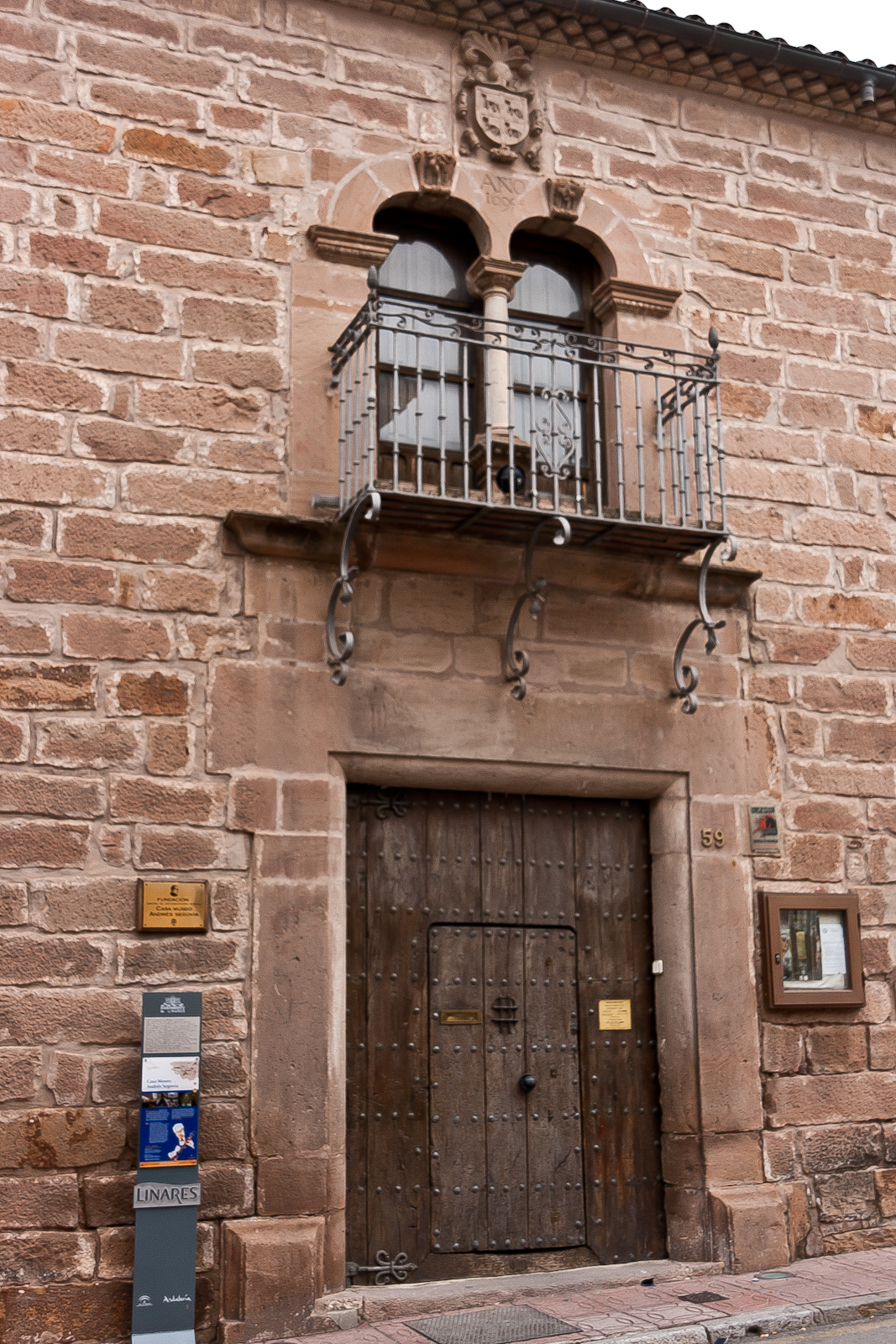 Orozco's Palace, which is Museum of Andres Segovia in Linares (Spain)